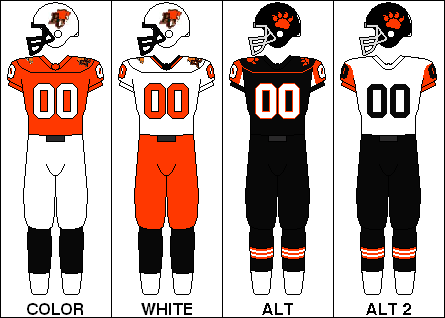 BC Lions jerseys featuring 1960s retro model.